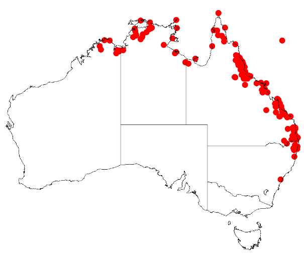 Acacia aulacocarpa Occurrence data from Australasia Virtual Herbarium downloaded from on 8 December 2018